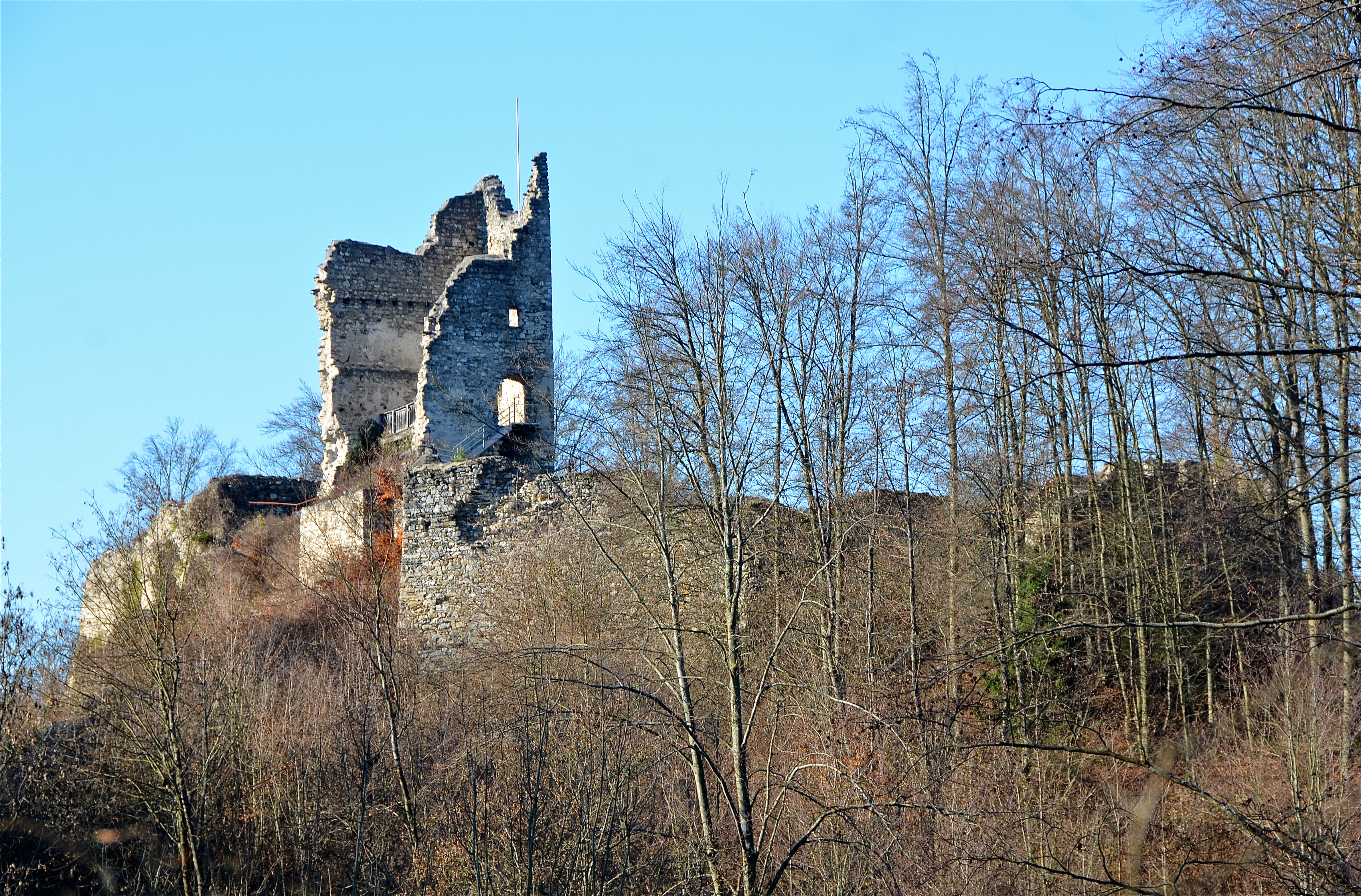 Castle ruin Leonstein, municipality Pörtschach am Wörther See, district Klagenfurt Land, Carinthia, Austria, EU